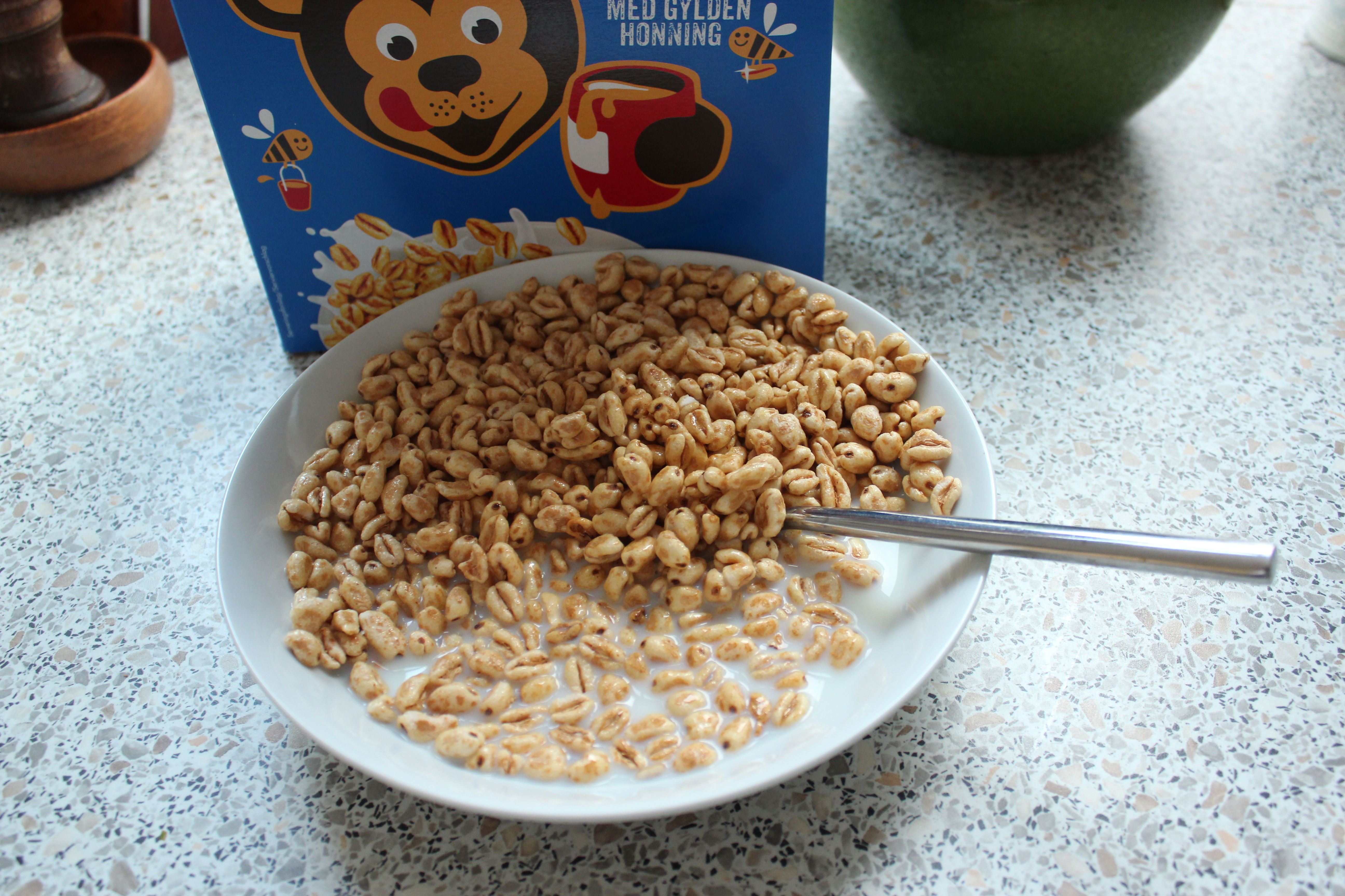 Breakfast cereal from Kellogg Company